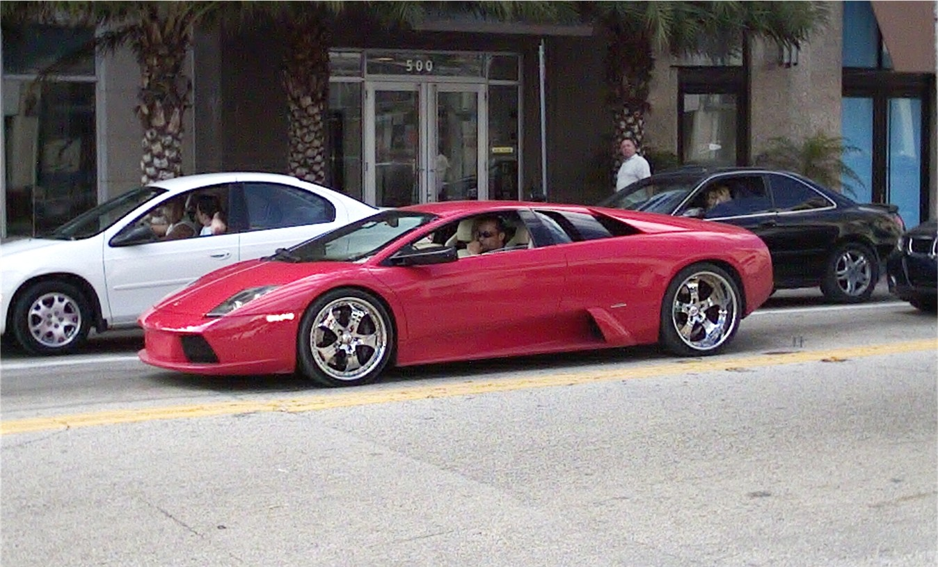 Lamborghini Murciélago photographed in Miami, Florida in March 2006